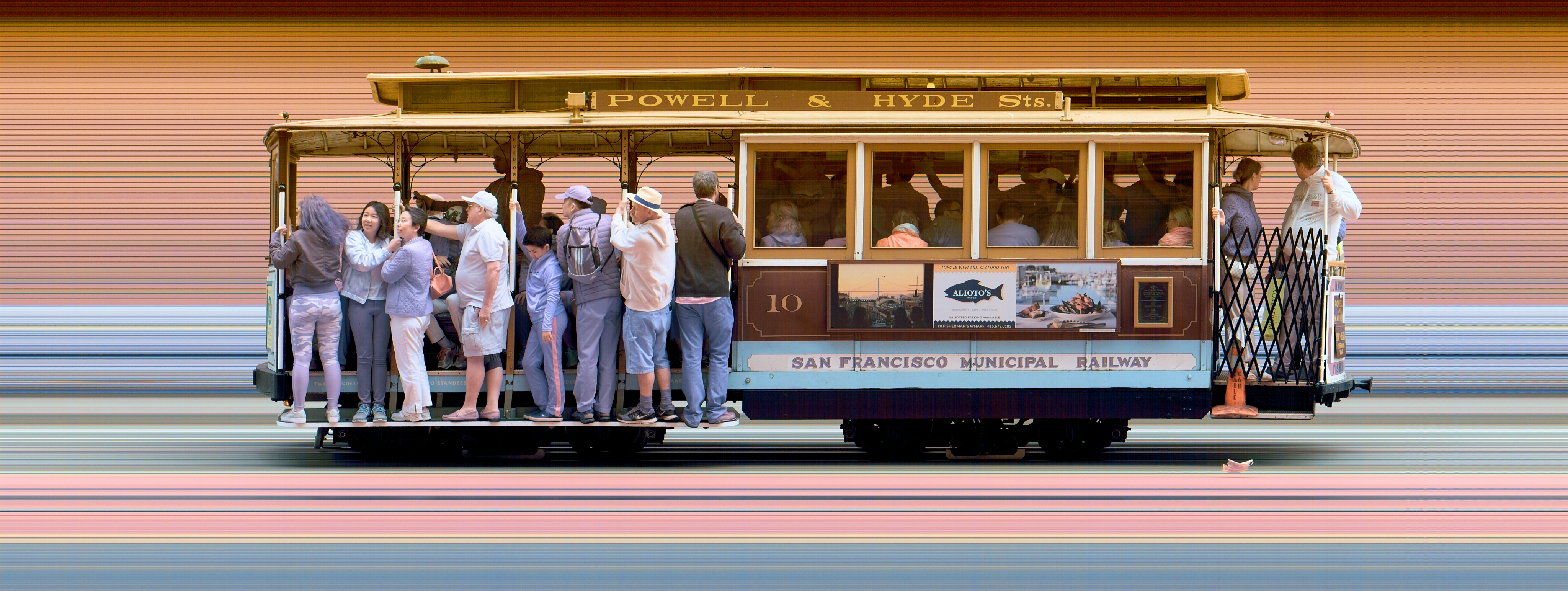 Car 10 of the San Francisco cable car system photographed using strip photography, a photographic technique of capturing a 2-dimensional image as a sequence of 1-dimensional images over time, rather than a single 2-dimensional at one point in time.